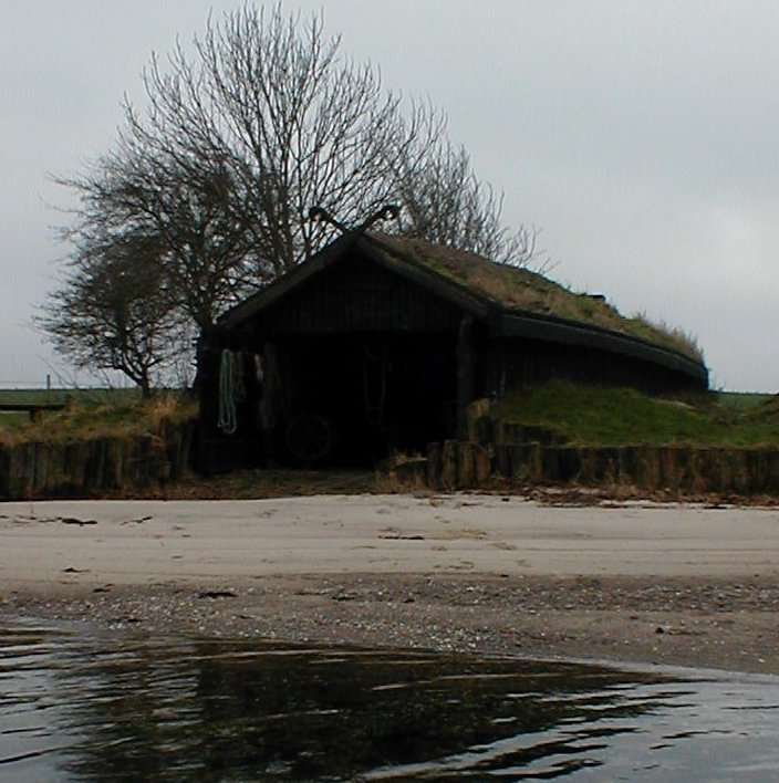 The Naust of the viking ship 'Sebbe Als', Augustenborg, Denmark.